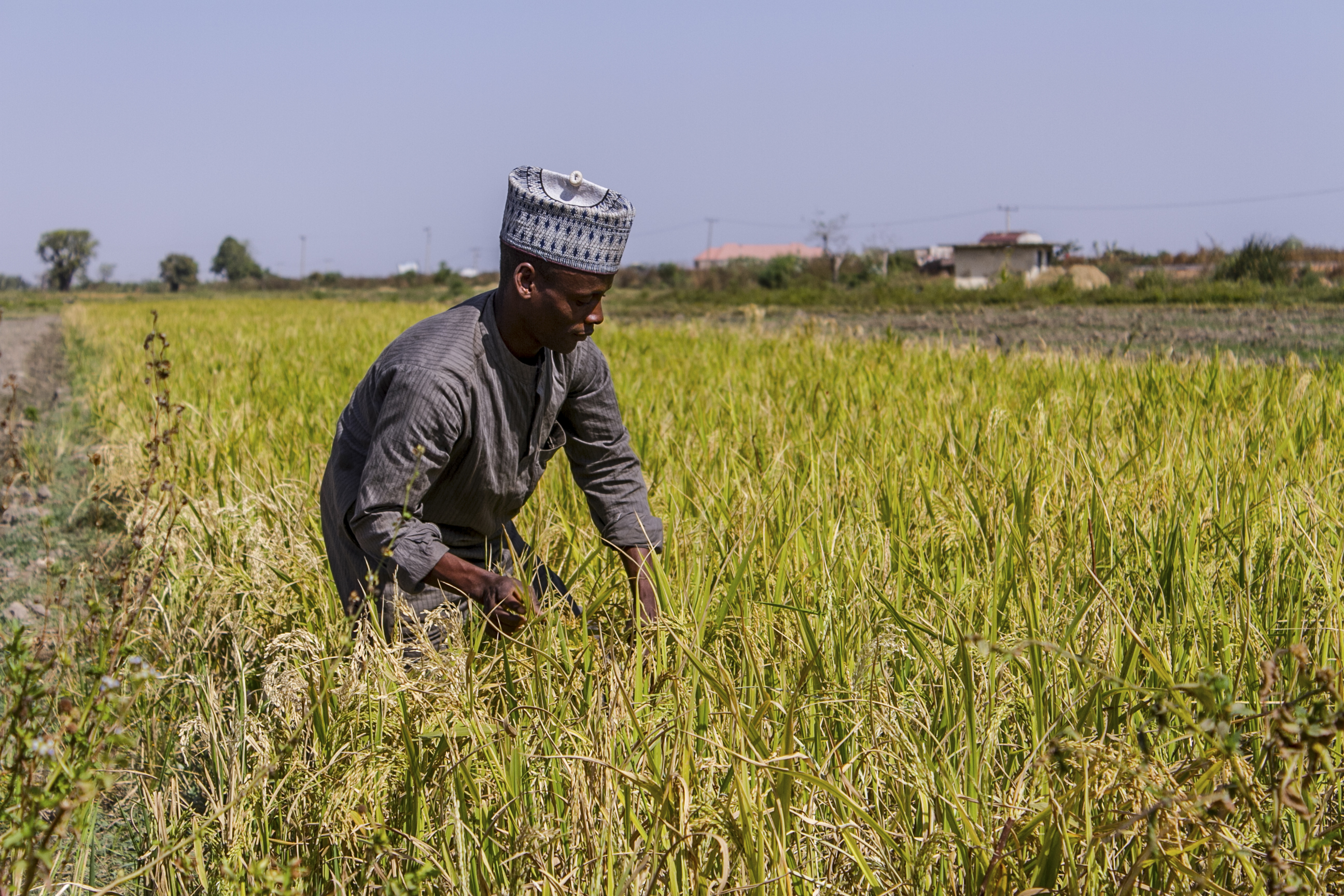 A man weeds his rice crop This is an image of "African people at work" from Nigeria